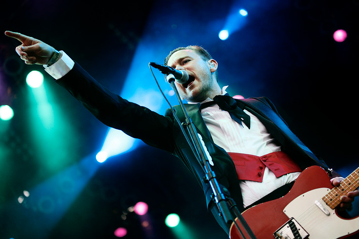 kent live in 2006